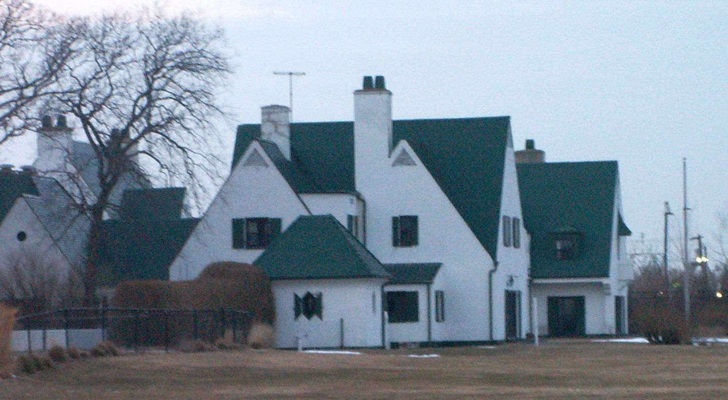 Caleb Bragg Estate on Star Island in Montauk, East Hampton, New York